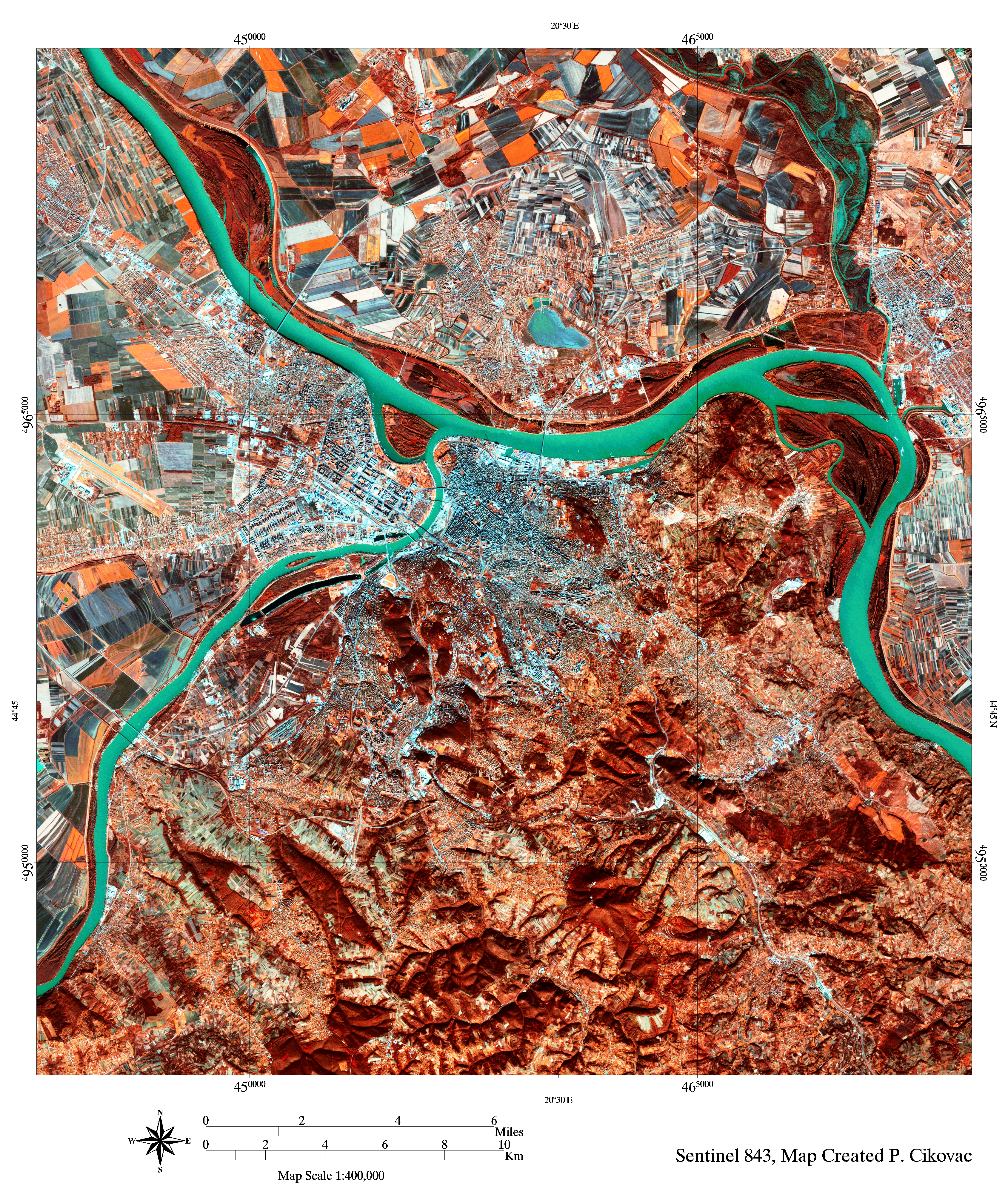 Landsat 8 caption Belgrade, June 22 2013